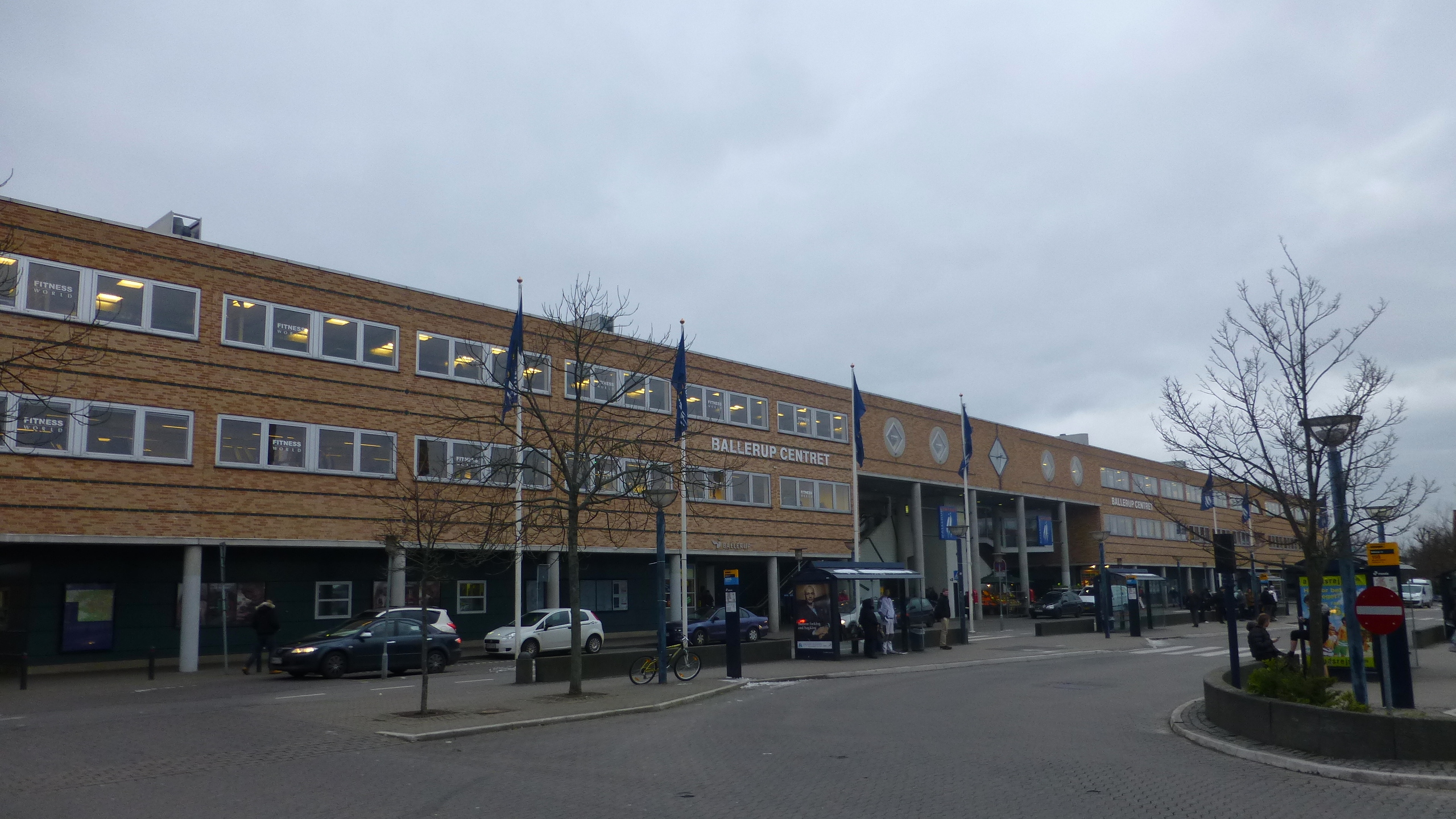 Ballerup Centret, a shopping center build together with Ballerup Station in Copenhagen.